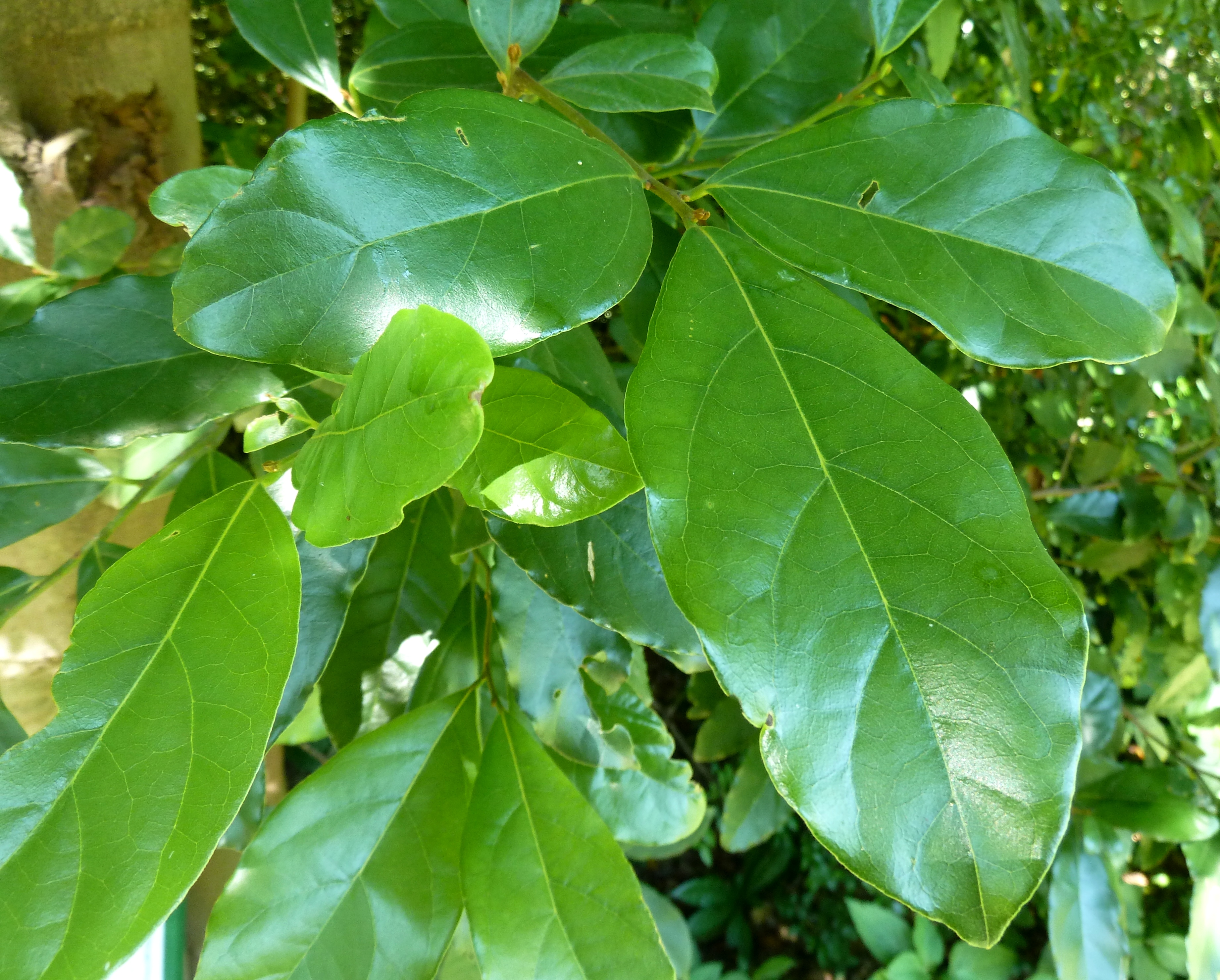 Foliage of a Broad-leaved Quince in the Walter Sisulu National Botanical Garden